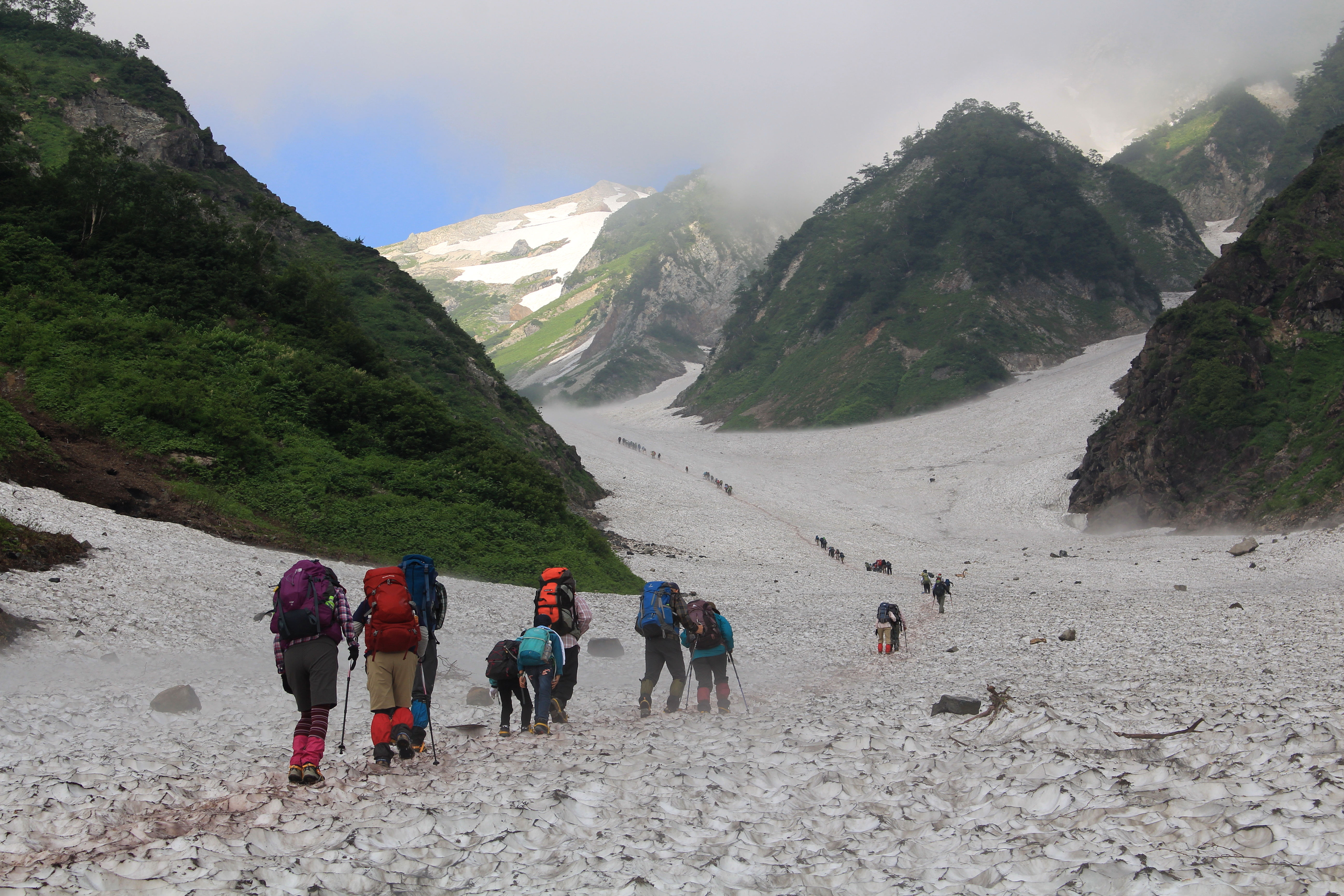 Shirouma dai sekkei in Mount Shirouma, Hakuba, Nagano prefecture, Japan.